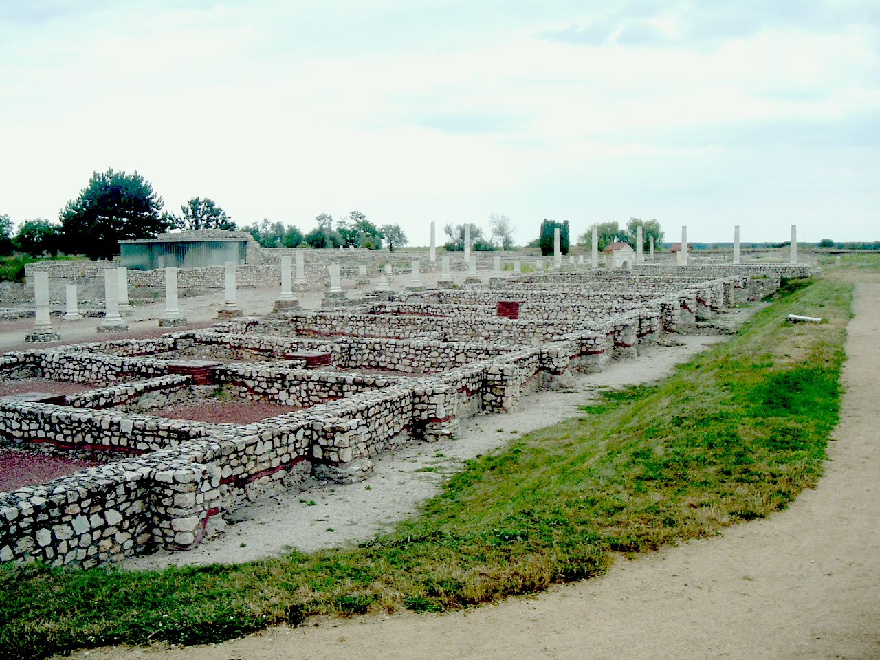 Ruins of the ancient roman town Gorsium in Tác